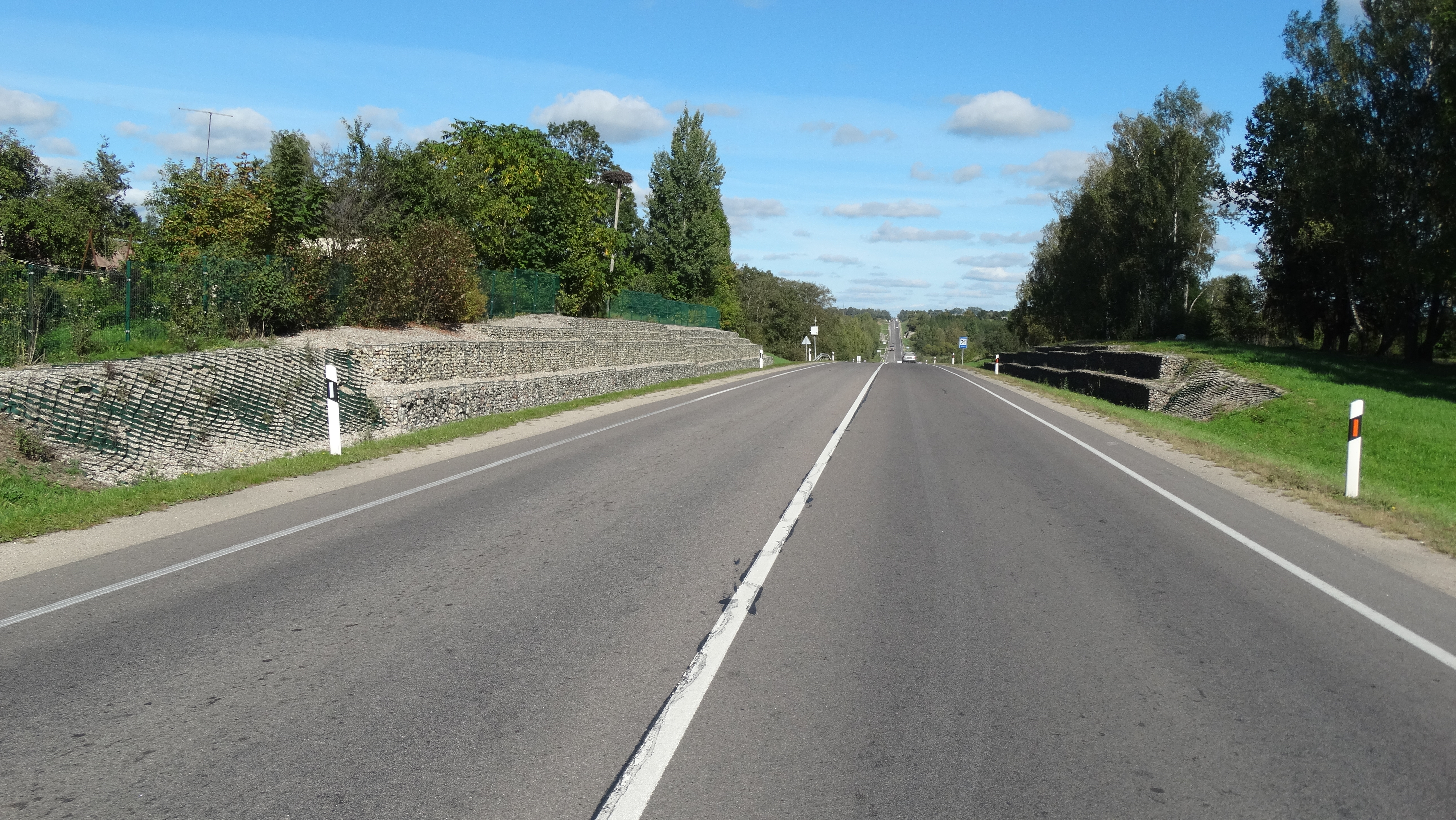 Road A6, Utena District, Lithuania